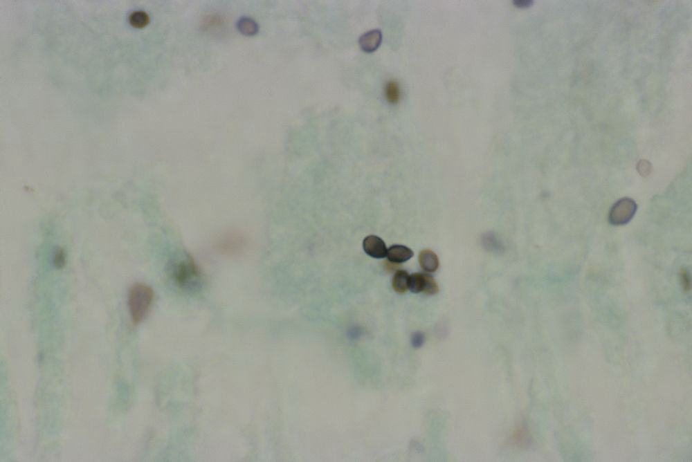 Cyst form of Pneumocystis. GMS Stain. Close apposition of cysts may simulate budding.